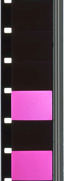 Film strip of N:O:T:H:I:N:G by Paul Sharits